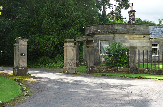 Lodge and gate piers near Hartburn. Early-C19th entrance to Meldon Park, probably by John Dobson. The lodge has a canted front with a slightly weedy-looking Tuscan porch. Piers with mouldings but no longer any gates. Grade II listed.